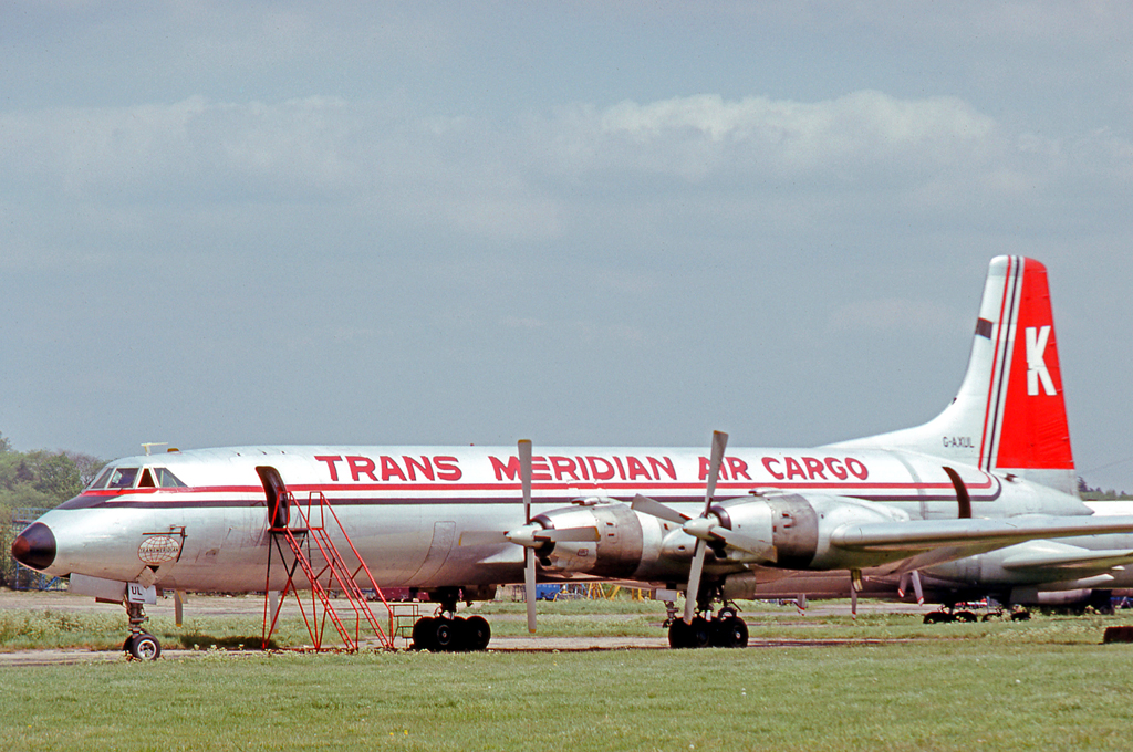 Canadair CL-44D G-AXUL of Trans Meridian Air Cargo at London Stansted Airport in 1976